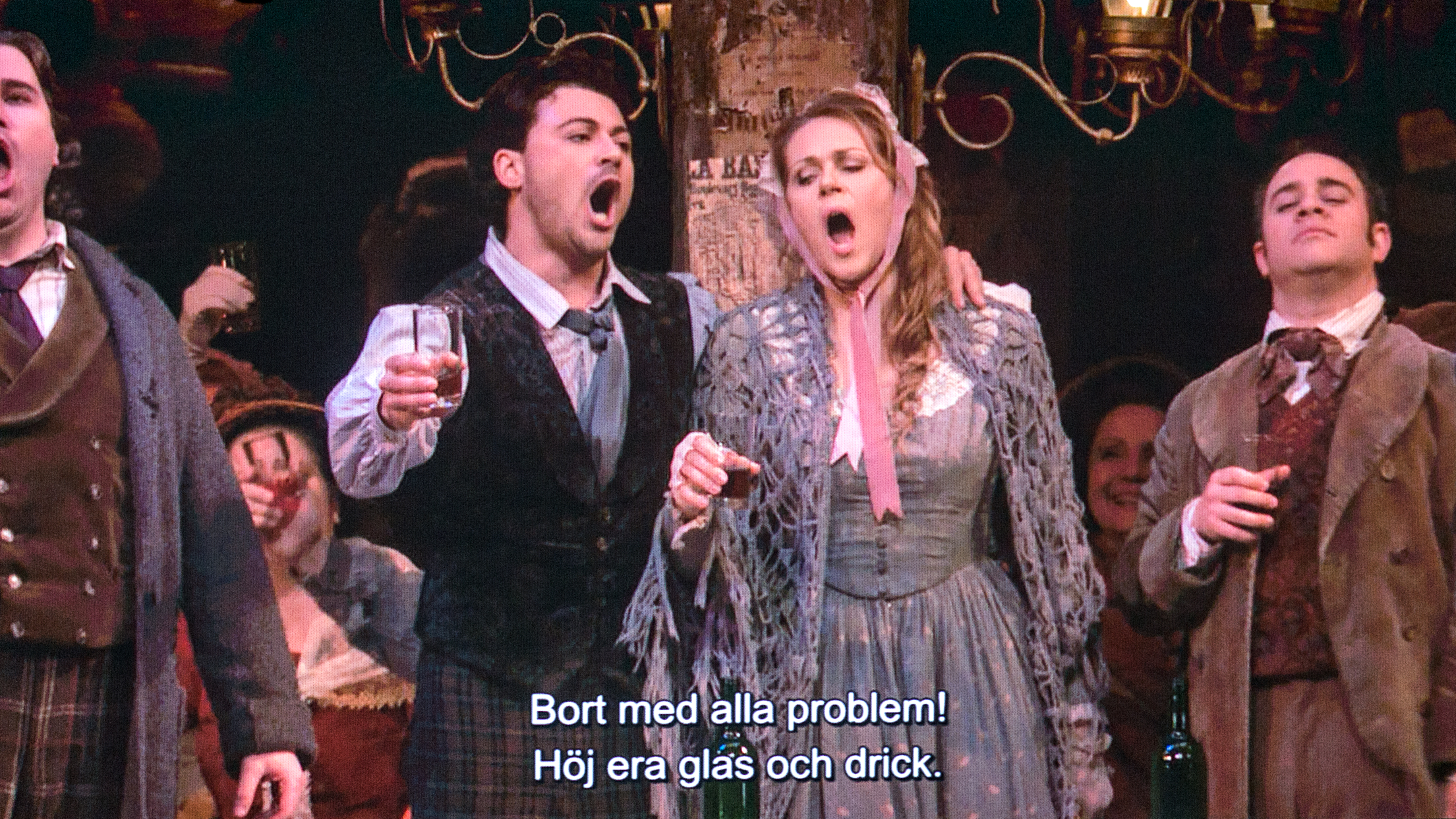 La Bohème from the Metropolitan Opera April 2014